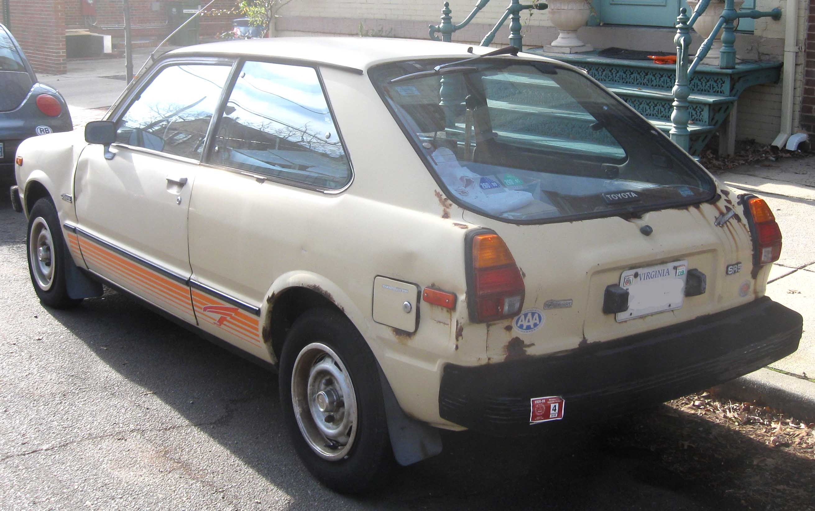 1980 Toyota Corolla Tercel photographed in Alexandria, Virginia, USA.